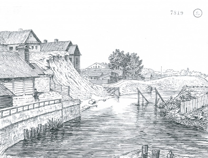 View of Śvisłač River near Miensk Castle, Jazep Drazdovič